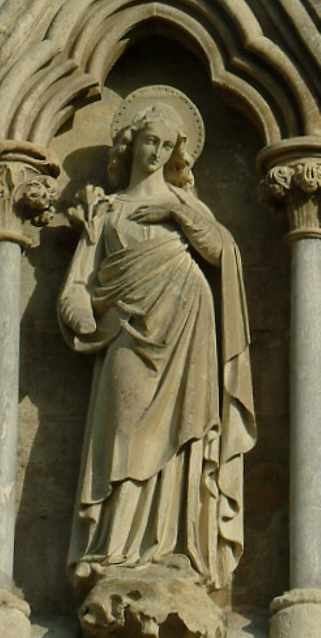 A statue of a standing Virgin Mary on the West Front of Salisbury Cathedral, UK.